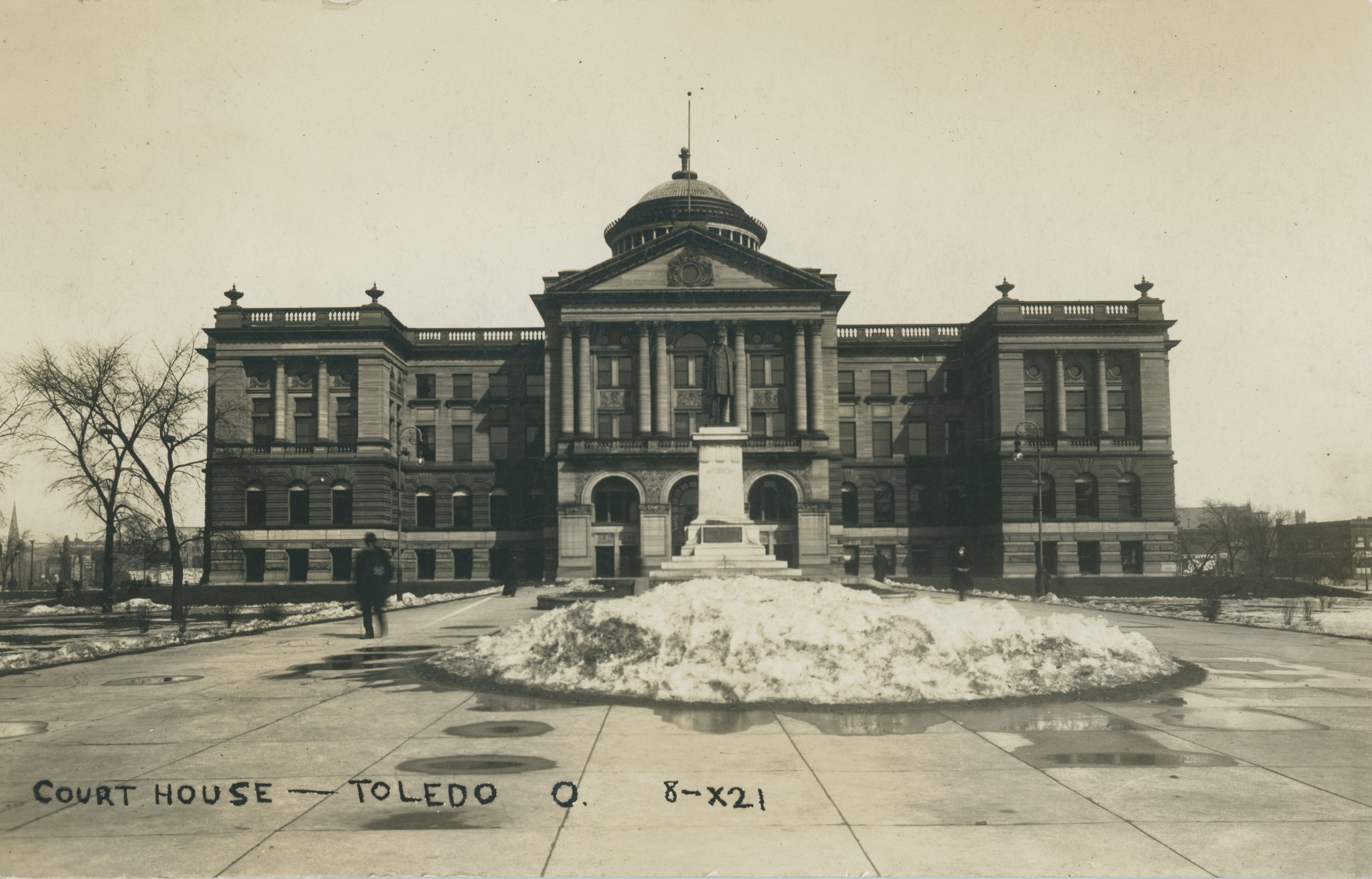 A postcard from the Ken Levin Toledo Postcard Collection, donated by Toledo resident, Ken Levin. The collection contains picture postcards about the Toledo area. Mr. Levin's collection was published by the Toledo Blade in a book entitled "You Will Do Better in Toledo: From Frogtown to Glass City", edited by Sandy and John R. Husman.